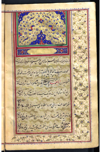 Namaz Adineh, Friday Prayer, in Farsi Author: Mohaghegh Sabzevari – Muhammad Baqir al-Sabzevari (1608-1679 / 1017-1090 A.H.) Malek National Library and Museum Institutions Number: 000/00887/04/1393 Published: 17th century